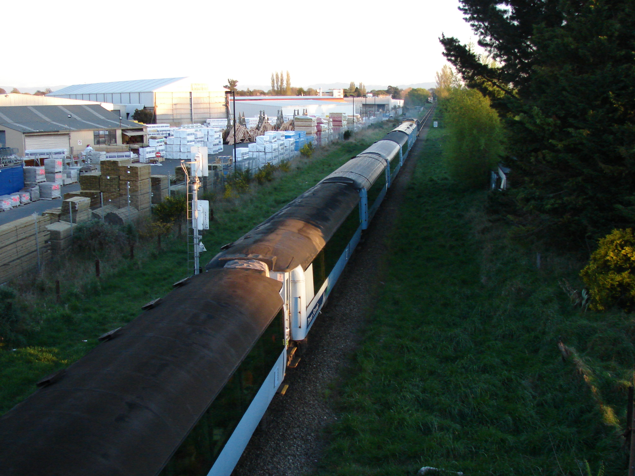 A Picton-bound TranzCoastal service (train #0700) heading north through Christchurch. Photographed by Matthew25187 on 2007-10-06.